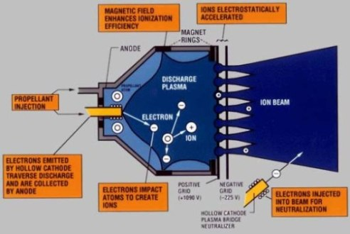 DS1 Ion Engine Diagram. Caption from the source webpage: The ion propulsion system (IPS), provided by NSTAR (NASA SEP Technology Application Readiness), uses a hollow cathode to produce electrons to collisionally ionize xenon. The Xe+ is electrostatically accelerated through a potential of up to 1280 V and emitted from the 30-cm thruster through a molybdenum grid. A separate electron beam is emitted to produce a neutral plasma beam. The power processing unit (PPU) of the IPS can accept as much as 2.5 kW, corresponding to a peak thruster operating power of 2.3 kW and a thrust of 92 mN. Throttling is achieved by balancing thruster and Xe feed system parameters at lower power levels, and at the lowest thruster power, 500 W, the thrust is 20 mN. The specific impulse decreases from 3100 s at high power to 1900 s at the minimum throttle level.